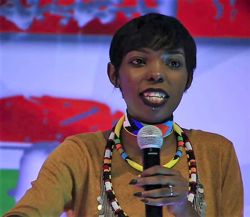 Hustle Yako aims to empower, impact and change the youth by changing their perspective and attitude towards career, entrepreneurship and business. In this video, Hustle Yako Panelist, Adelle Onyango, shares her Hustle Story.